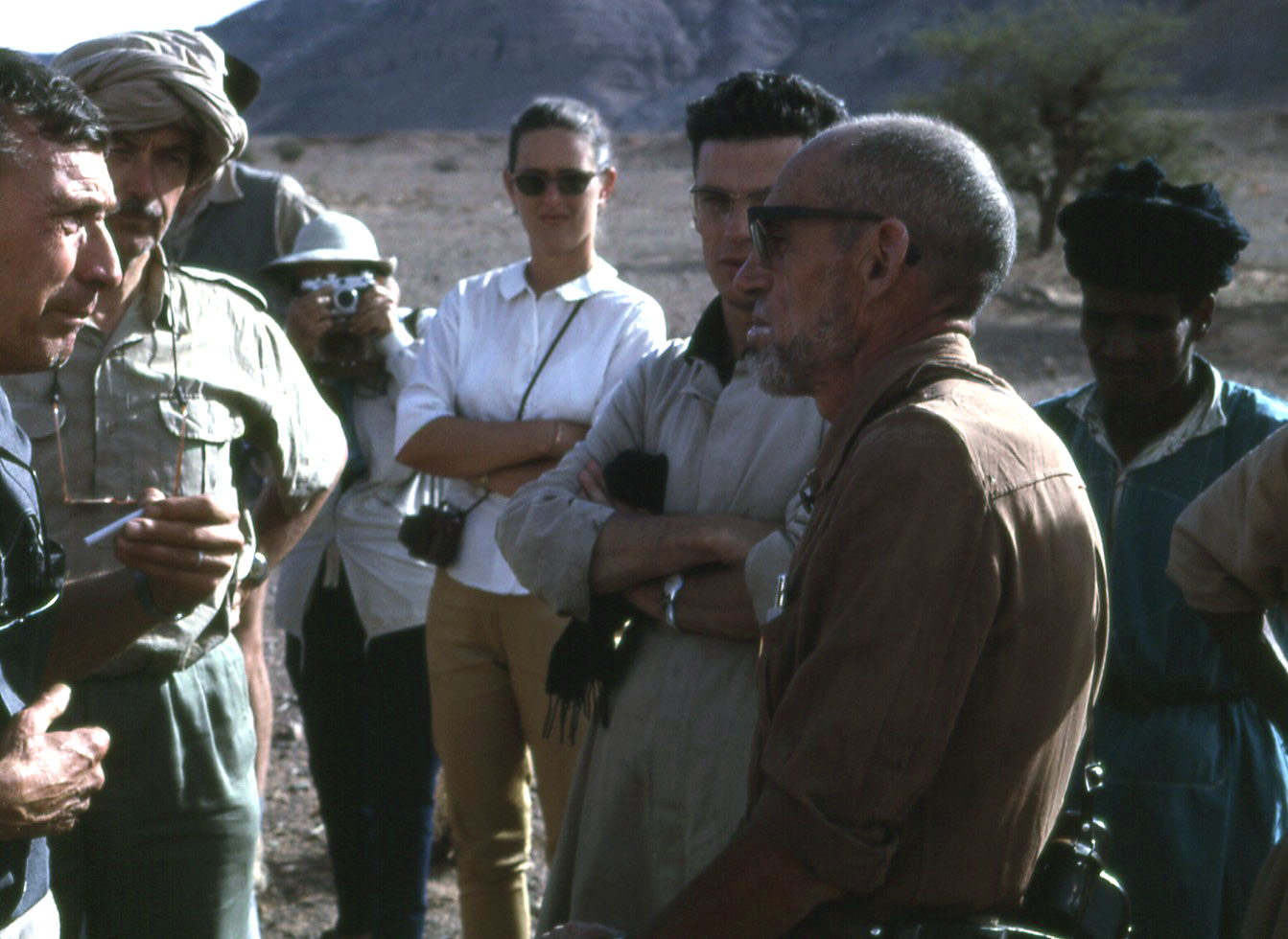 Theodore Monod talking with archaeologists in the Sahara Desert The famous French scientist, Theodore Monod (center, foreground), talks with archaeologists in the Sahara Desert in Mauritania in December, 1967. Avec Thurstan Shaw (on left with turban), Henriette Alimen (camera) et Sheryl Miller (lunettes de soleil) Photo légèrement retouchée (contrastes) et un peu recadrée